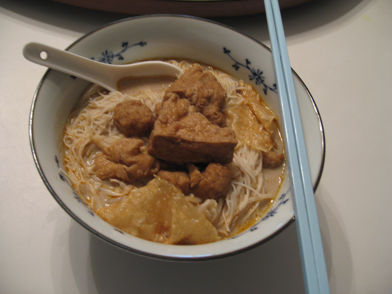 Johor laksa, a popular dish in Johor Bahru.